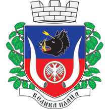 Middle coat of arms of Velika Plana